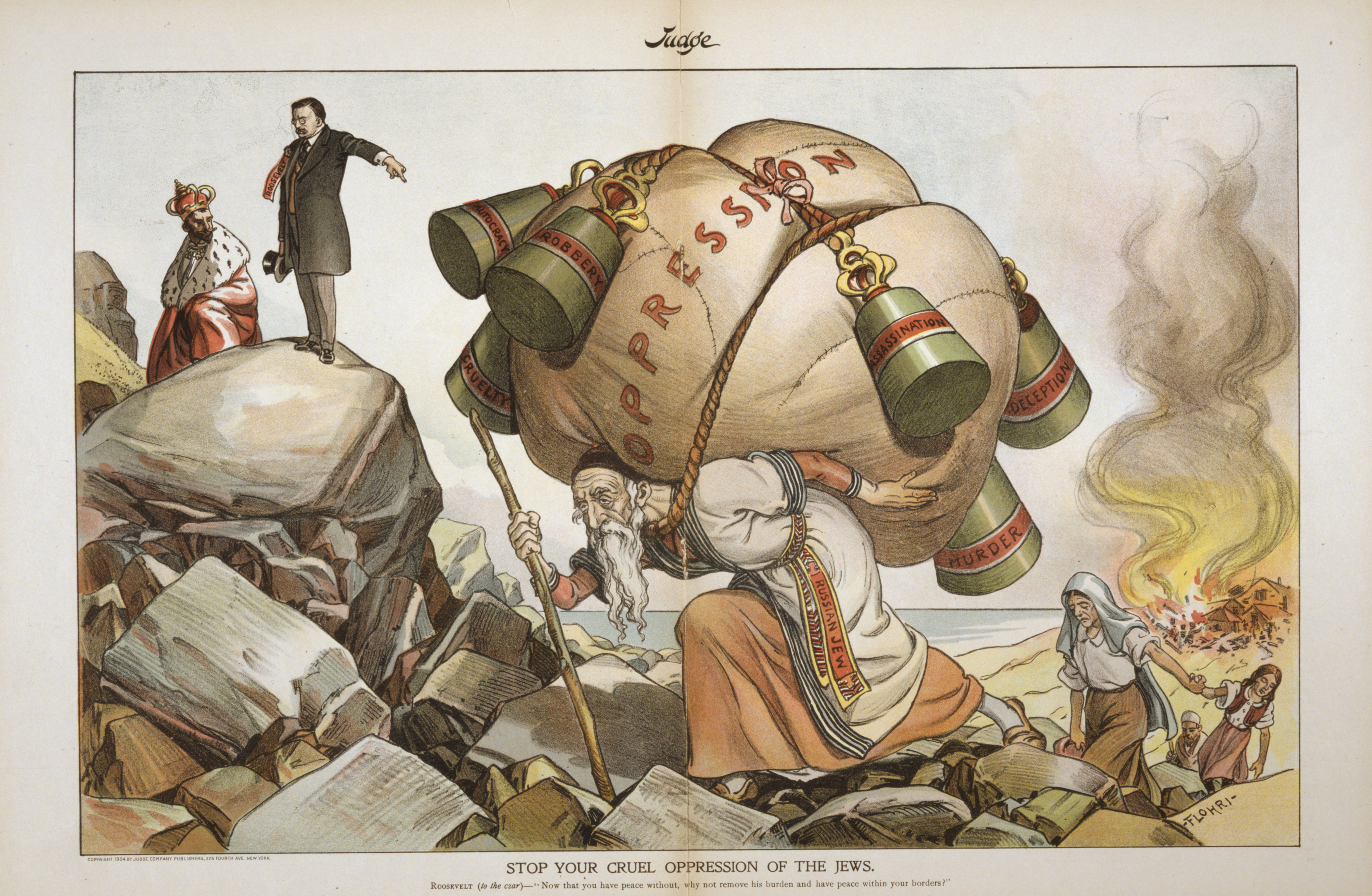 Print shows an aged man labeled "Russian Jew" carrying a large bundle labeled "Oppression" on his back; hanging from the bundle are weights labeled "Autocracy," "Robbery," "Cruelty," "Assassination," "Deception," and "Murder." In the background, on the right, a Jewish community burns, and in the upper left corner, Theodore Roosevelt speaks to the Emperor of Russia, Nicholas II, "Now that you have peace without, why not remove his burden and have peace within your borders?"